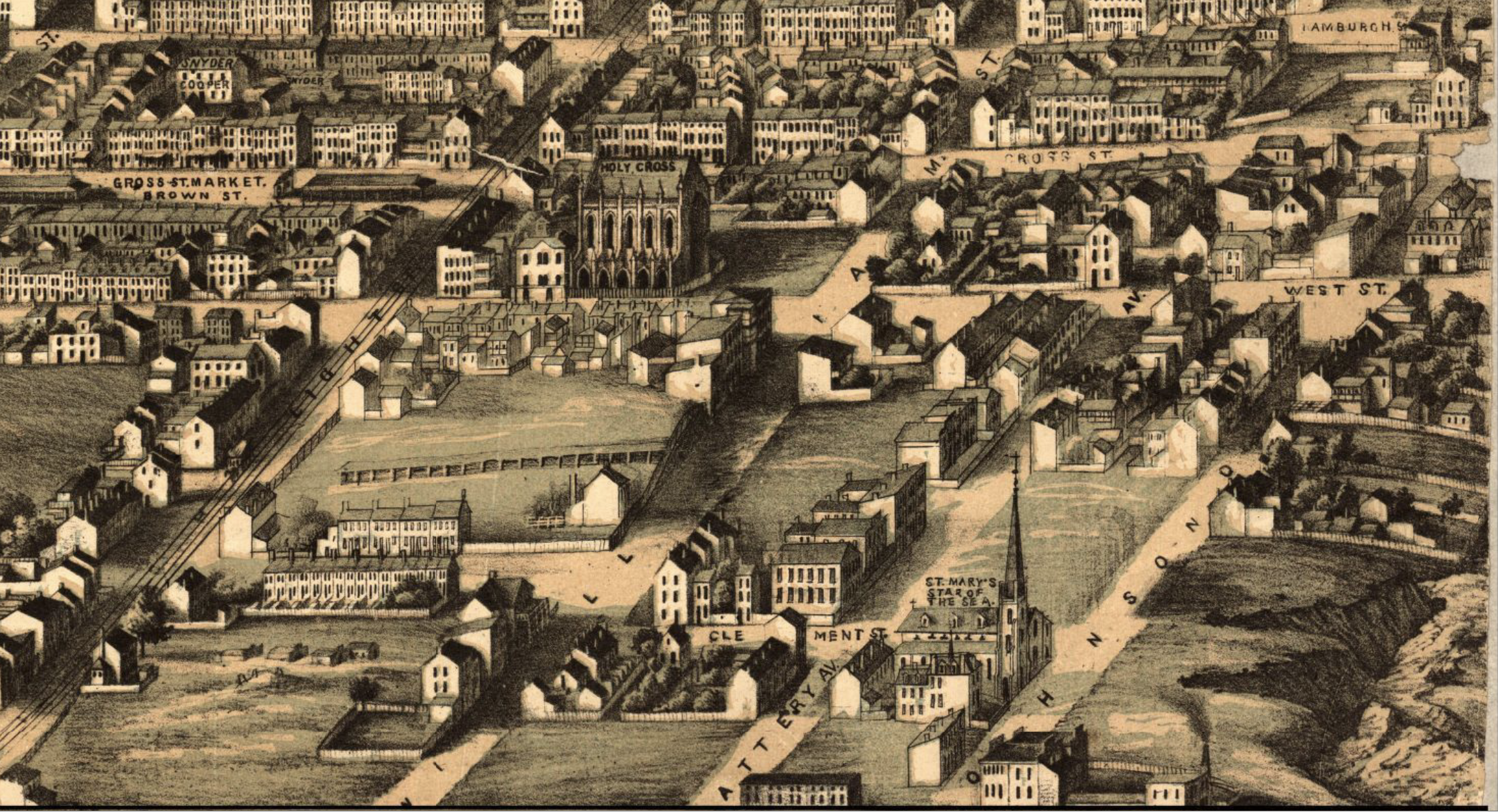 A crop showing the Riverside neighborhood of Baltimore, MD from the map: E. Sachse, & Co.'s bird's eye view of the city of Baltimore, 1869.